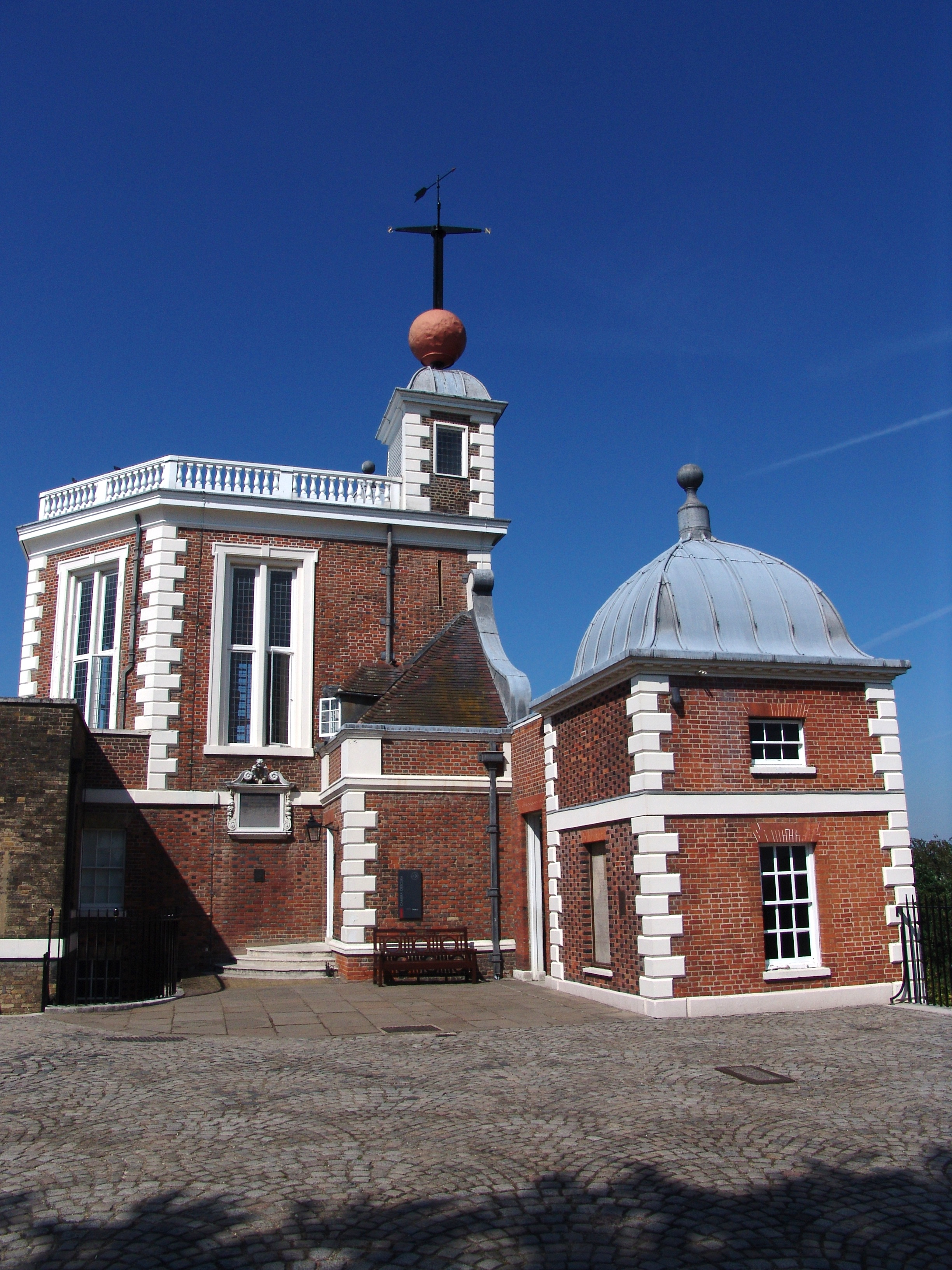 Royal Observatory, Greenwich